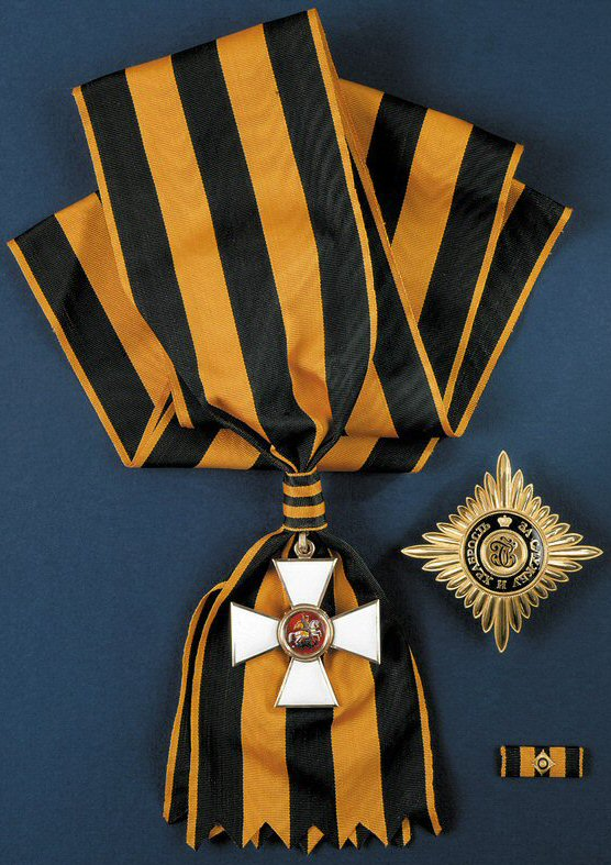 Russian Federation. Order Of Saint George 1st class. Reinstated on 8 August 2000 after its abolition in 1917, the Order Of Saint George is the supreme military order of Russia, awarded to officers for brilliant military operations.